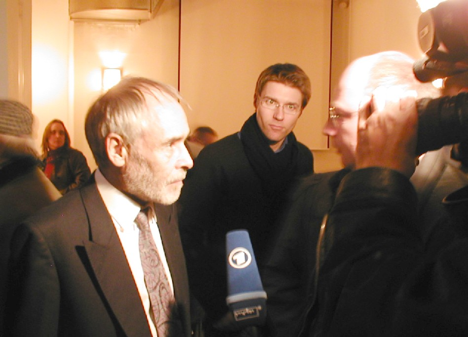 The physician Thomas Schmidt (1942-2008), who at the age of 11 years has played the leading role in [:en:Wolfgang Staudte